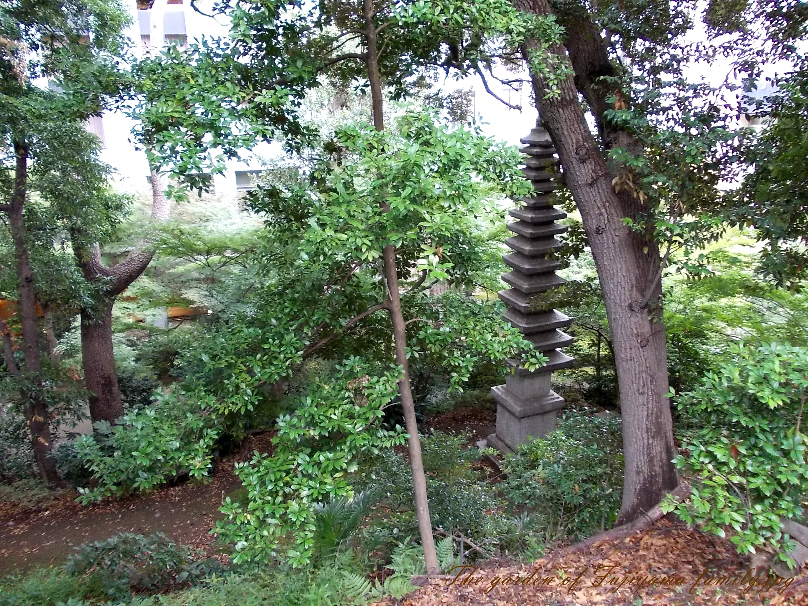 Japanese garden at the Sheraton Miyako Hotel Tokyo, where once was the residence of Aiichiro Fujiyama